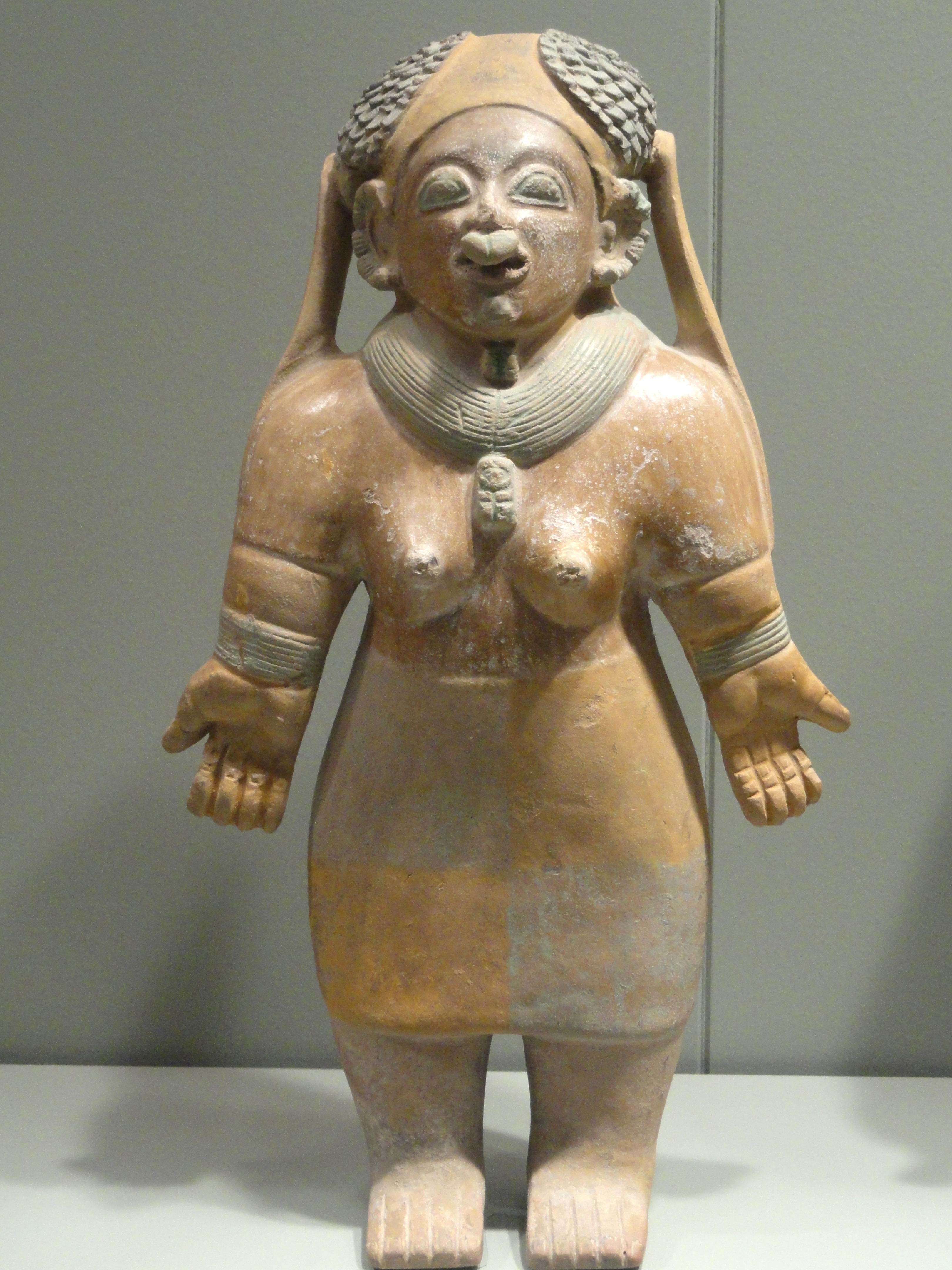 Exhibit in the Gardiner Museum, Toronto, Ontario, Canada. This artwork is in the public domain because the artist died more than 70 years ago.